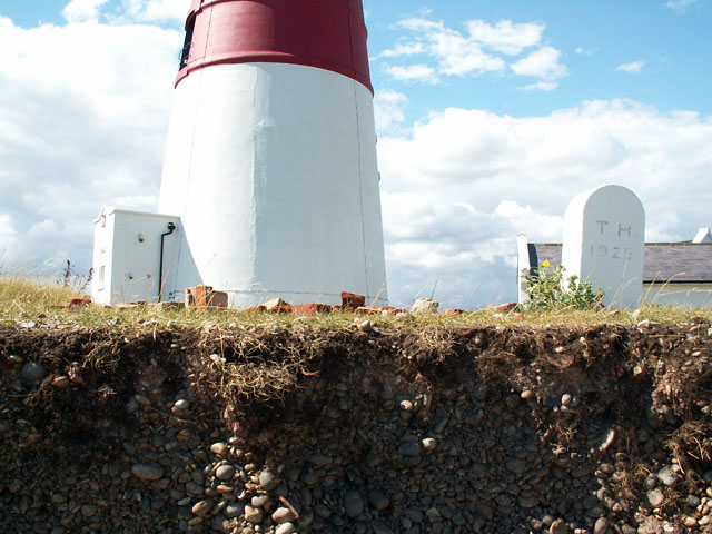 Coastal erosion near Orford Ness lighthouse The lighthouse on Orford Ness has been standing since 1793, but for how much longer?. The shingle spit is eroding rapidly - this is most obvious near the lighthouse.